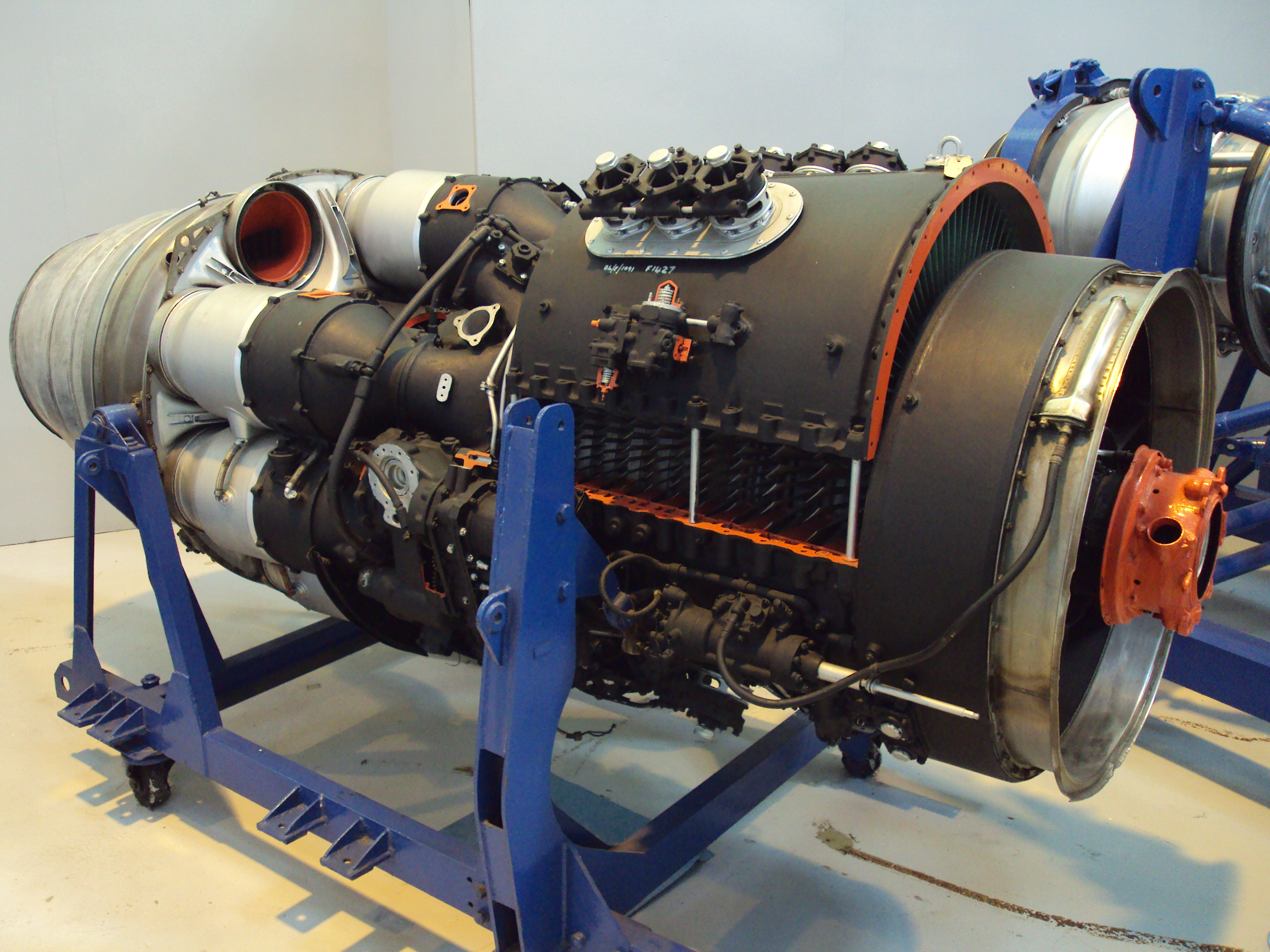 Rolls Royce Avon R.A.3-101 axial flow turbojet aircraft engine. Photo taken at the RAF Museum Cosford, Shropshire, England.